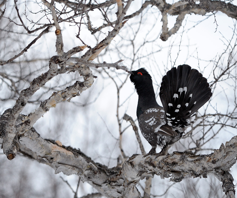 Black-billed Capercaillie Tetrao parvirostris (syn. T. urogalloides). Kronotsky Nature Reserve, Kamchatka.